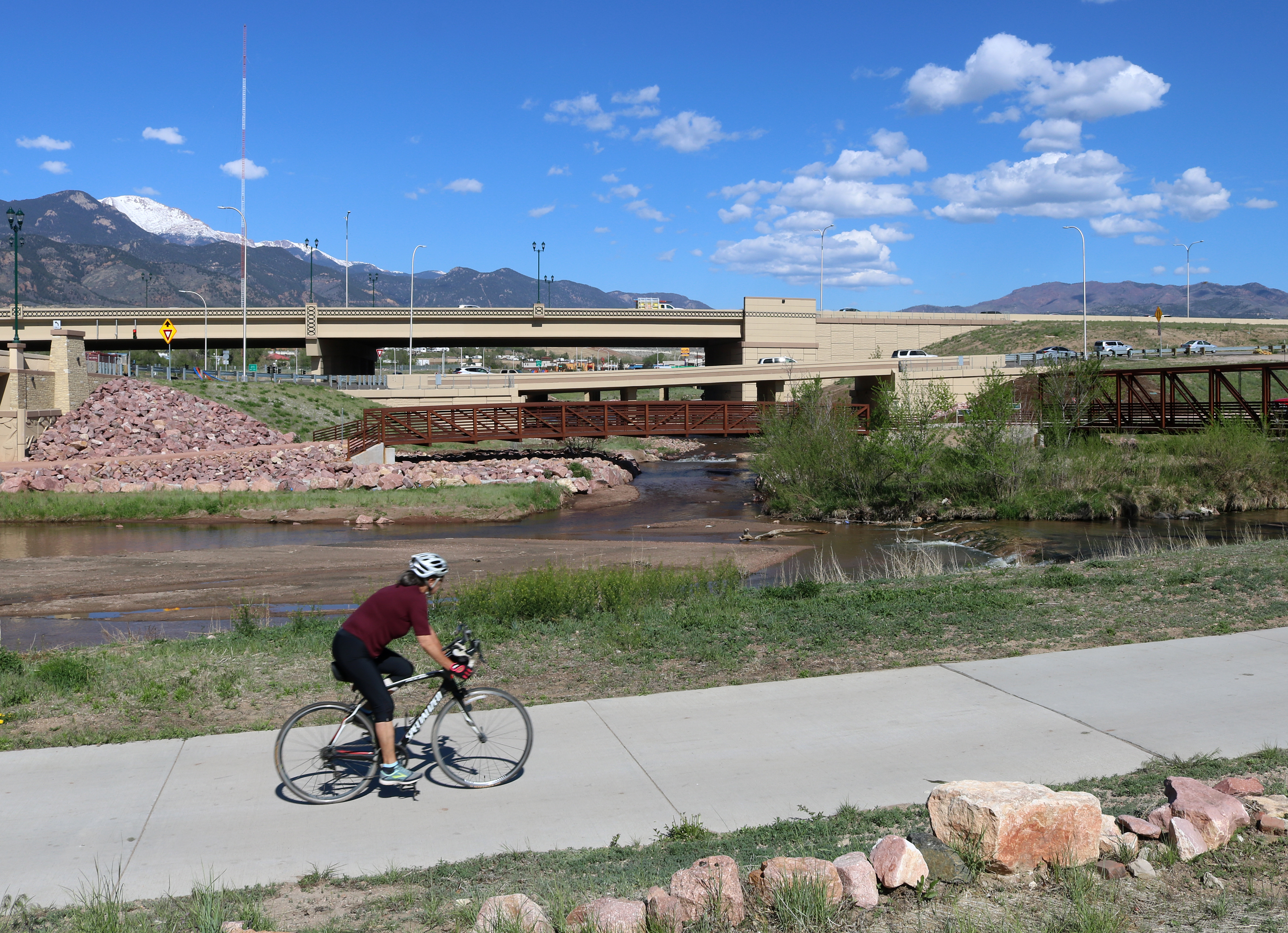 The confluence of Monument Creek and Fountain Creek near downtown Colorado Springs, Colorado. In the picture, Fountain Creek is in the center, and it turns south (left). Monument Creek is on the right of the picture, and its mouth is at the small rock dam, the point where it joins Fountain Creek. Also visible in the picture are Pikes Peak, Interstate 25, and the Pikes Peak Greenway Trail, the pink-colored trail on the left that includes the bridge that goes over Fountain Creek in the center. The bridge on the far right is the beginning of the Midland Trail, which heads west up Fountain Creek from here.